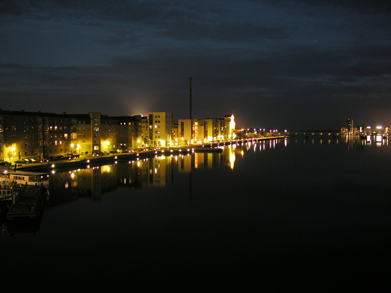 Aalborg harbour a sunday morning